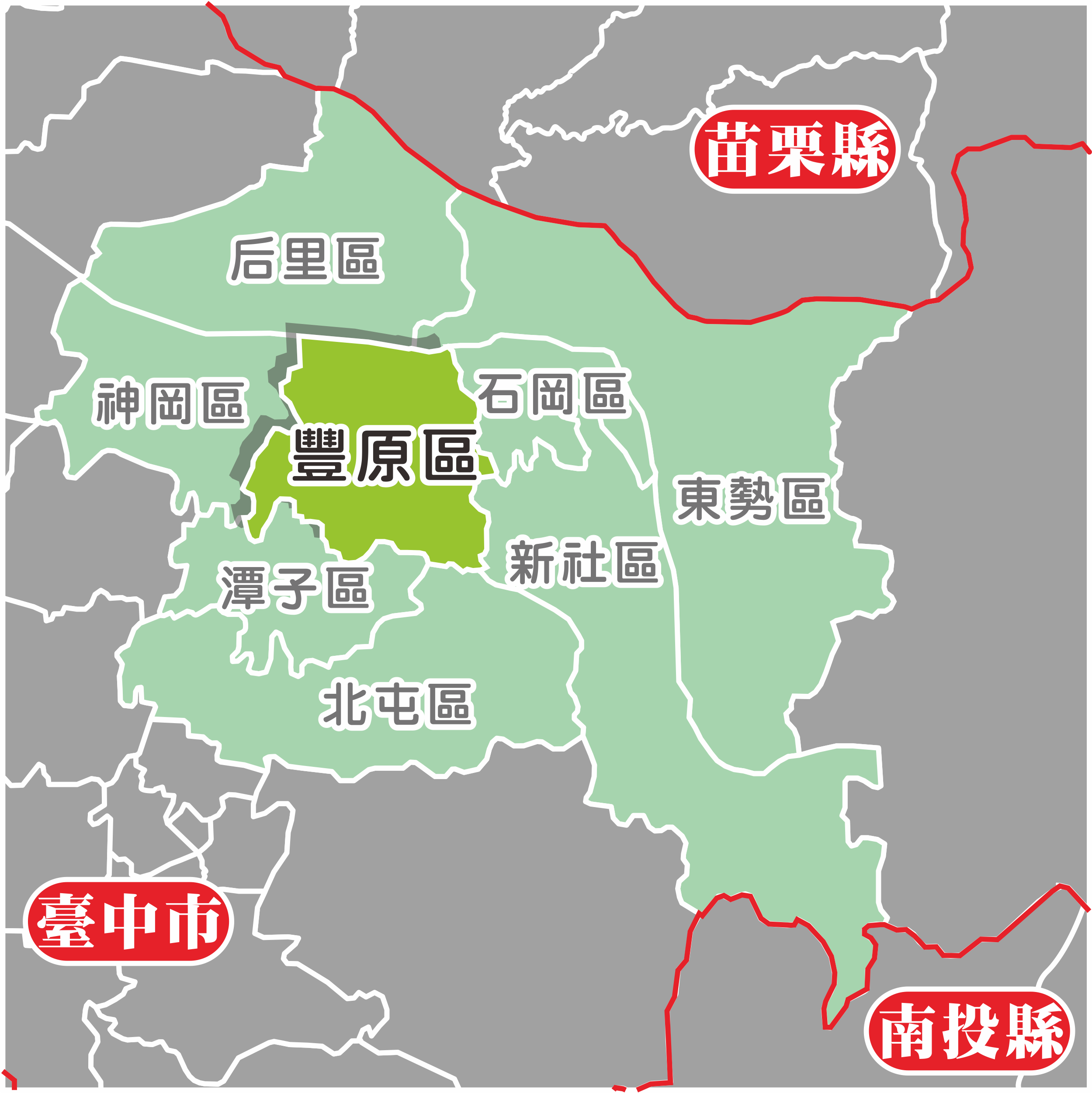 Fengyuan District